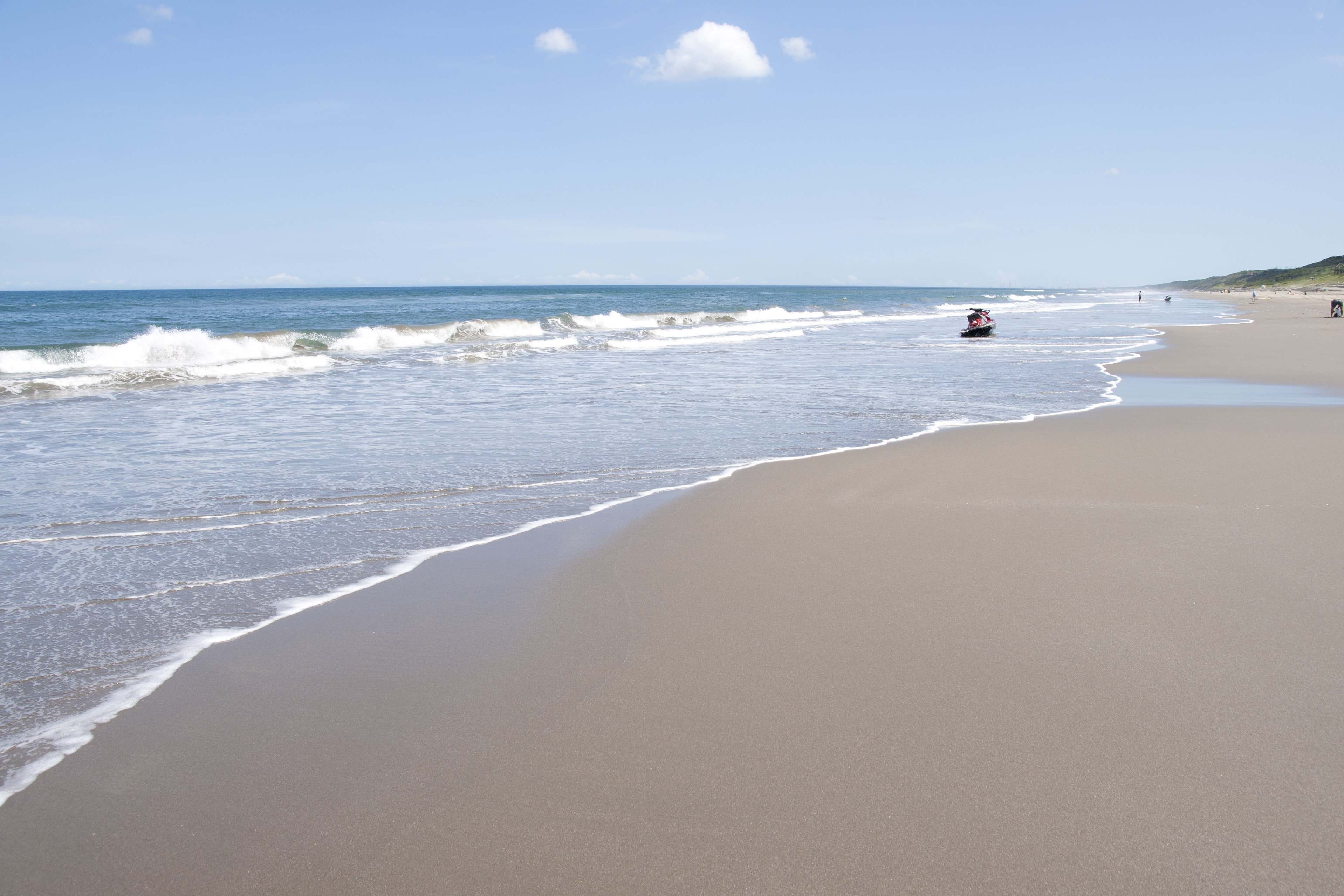 Otake Coast, Hokota City, Ibaraki Prefecture, Japan.